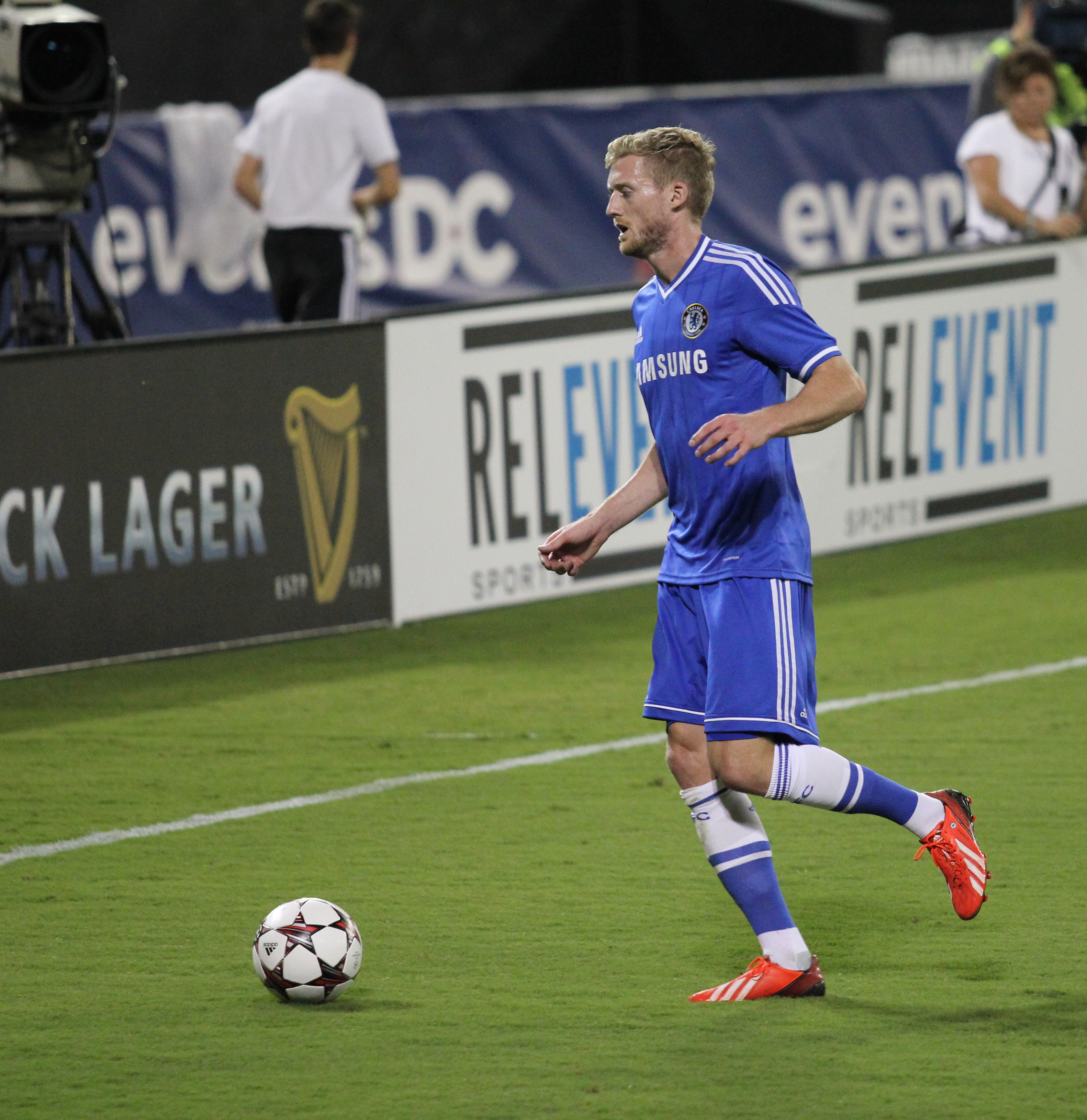 Chelsea vs. AS Roma at RFK Stadium, Washington, DC August 10, 2013